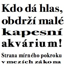 Campaign slogan of the "The Party of Moderate Progress Within the Bounds Of the Law"(Candidate: Jaroslav Hašek), Austrian 1911 parliament elections. English translation: "Every elector will get a free pocket aquarium."